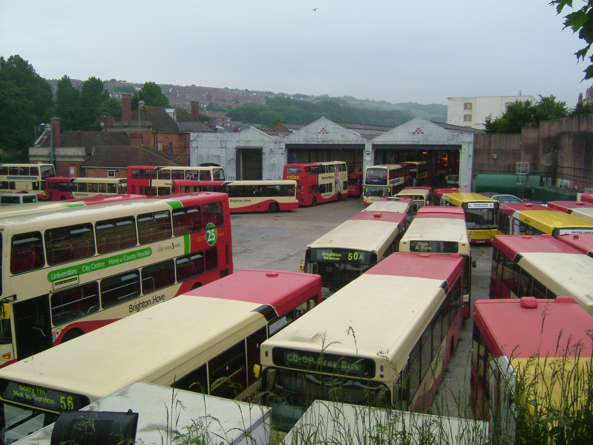 Brighton & Hove's bus depot.